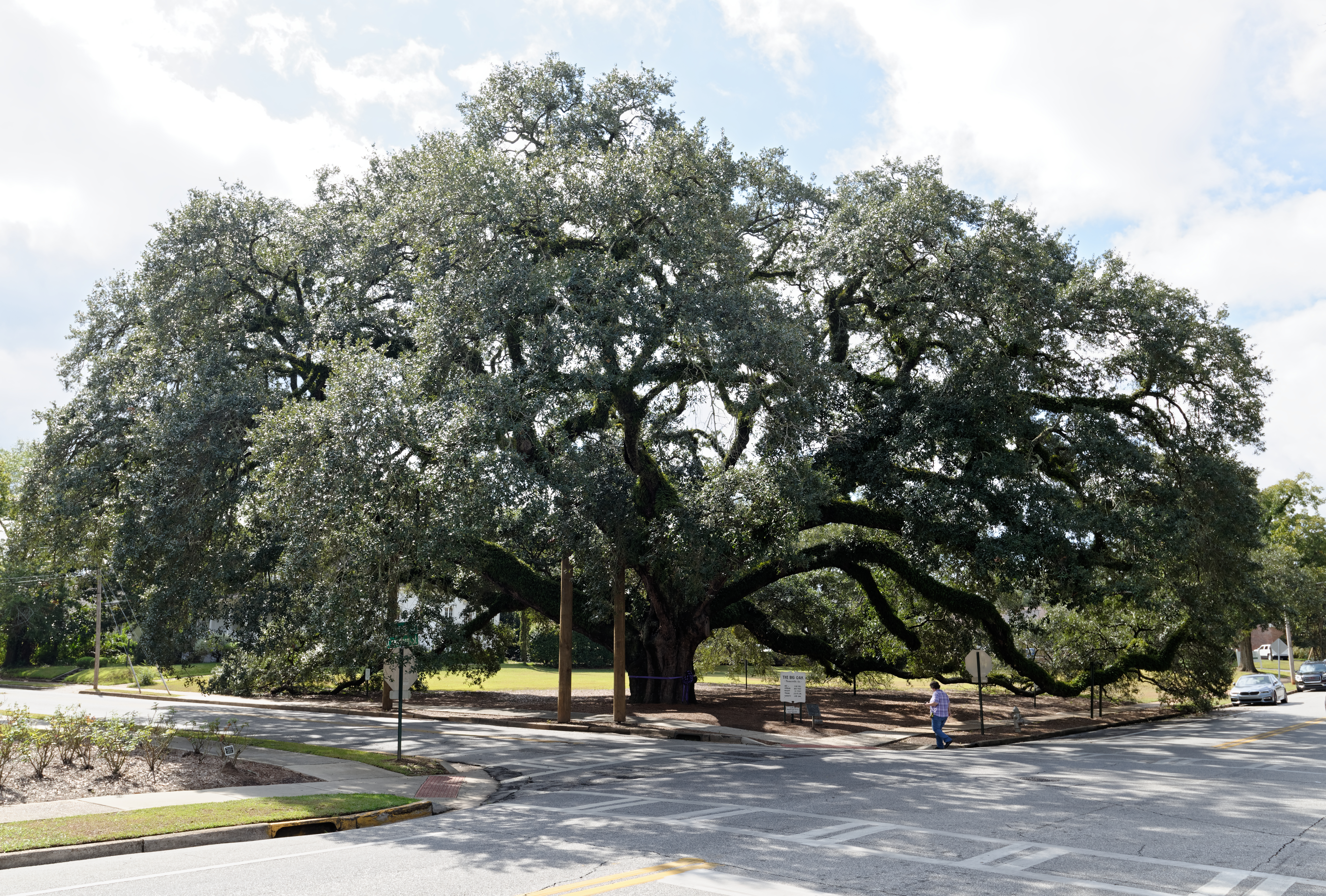 The Big Oak, Thomasville, Georgia, US